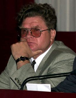 BLAGOVESHCHENSK. President Putin at a meeting with Amur Governor Anatoly Belonogov on the development of the Far East and Trans-Baikal region.